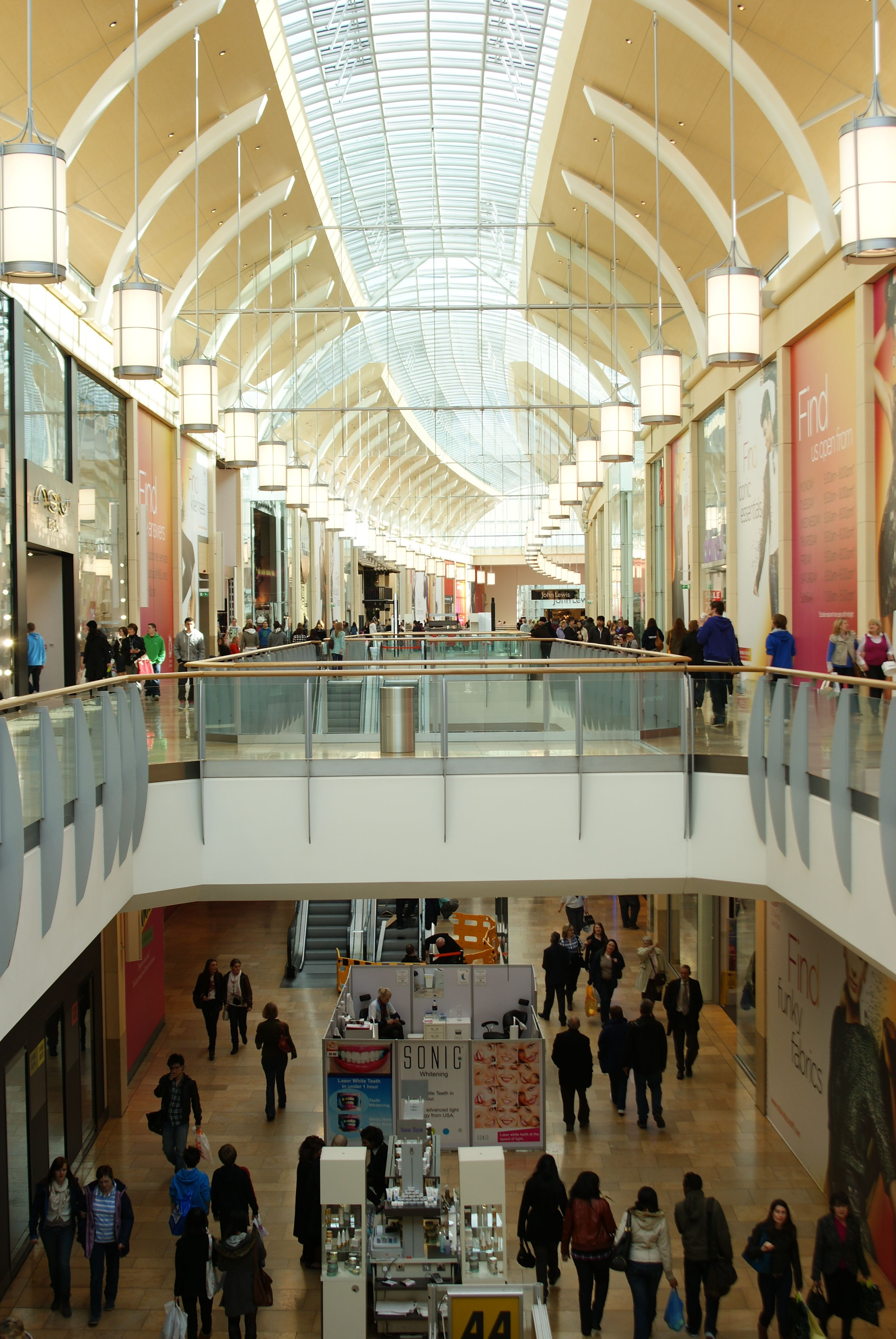 Grand Arcade, St. David's, Cardiff, Wales.